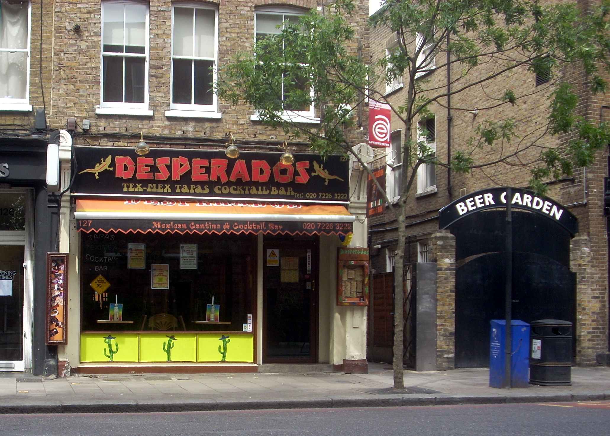 desperados islington granita